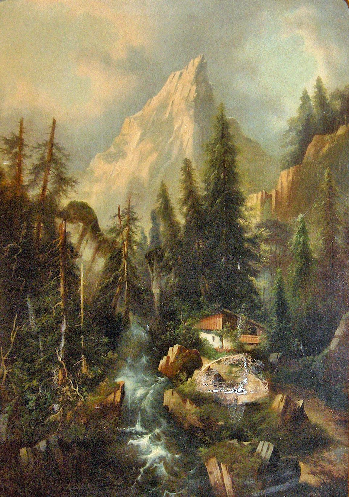 Alpine landscape - painting by Albert Lang (1847-1933) : private collection